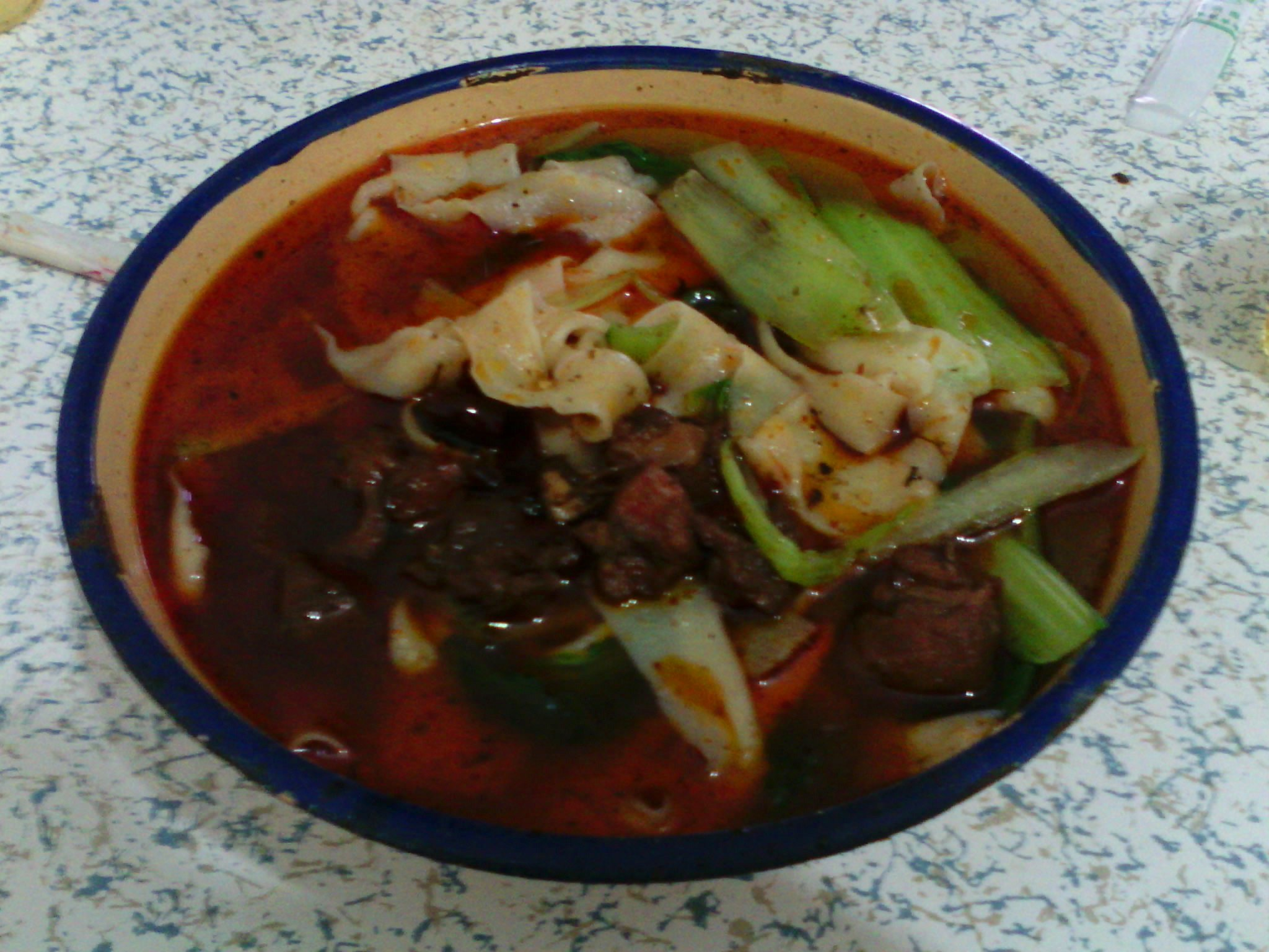 Taihe Yangrou Banmian, a specialty from Taihe county, Fuyang city, Anhui province, China. Wide, flat noodles, in a spicy broth with spiced goat meat and bok choy.